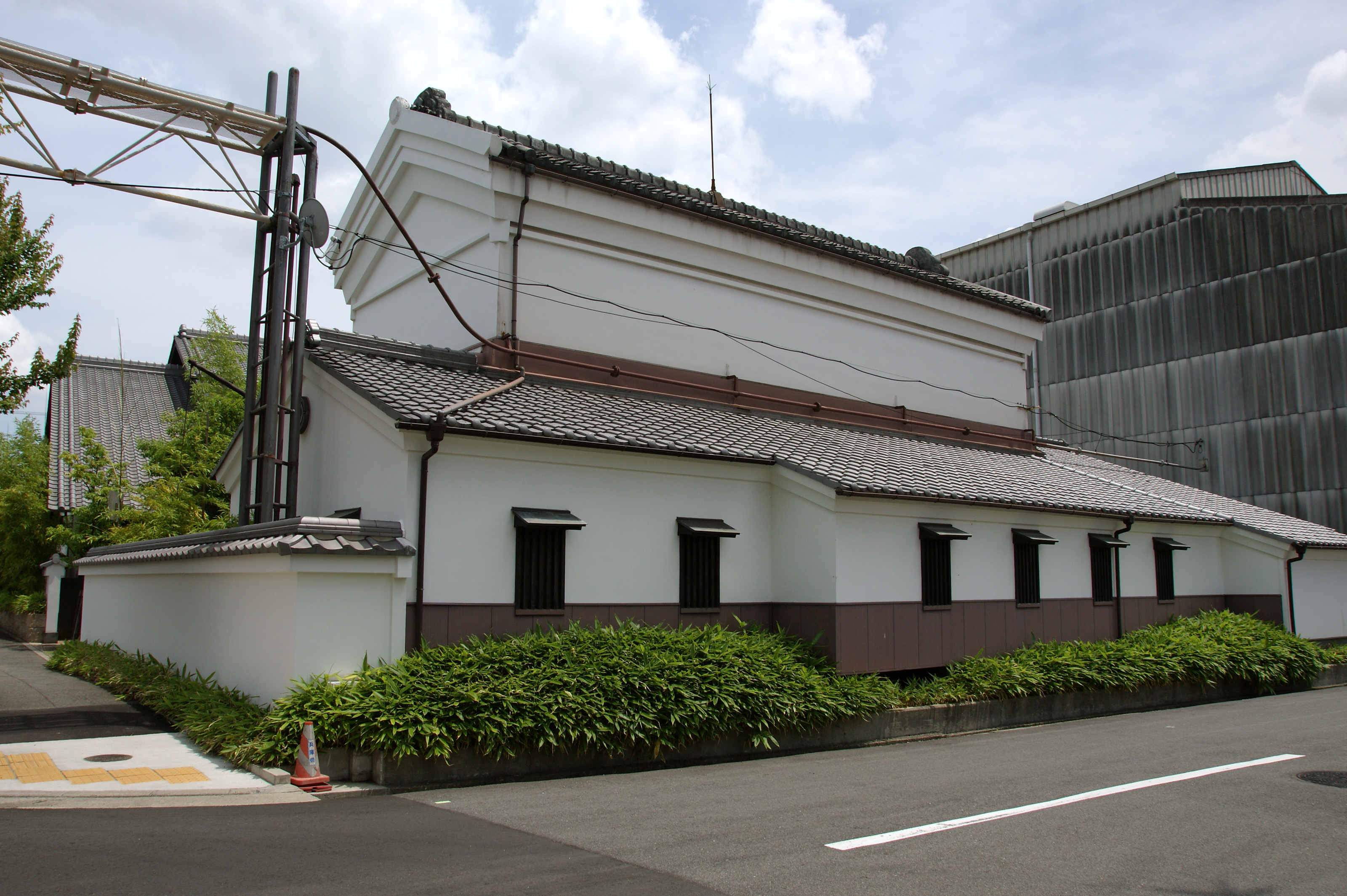 Hakutaka-ryokusuien in Nishinomiya, Hyogo prefecture, Japan